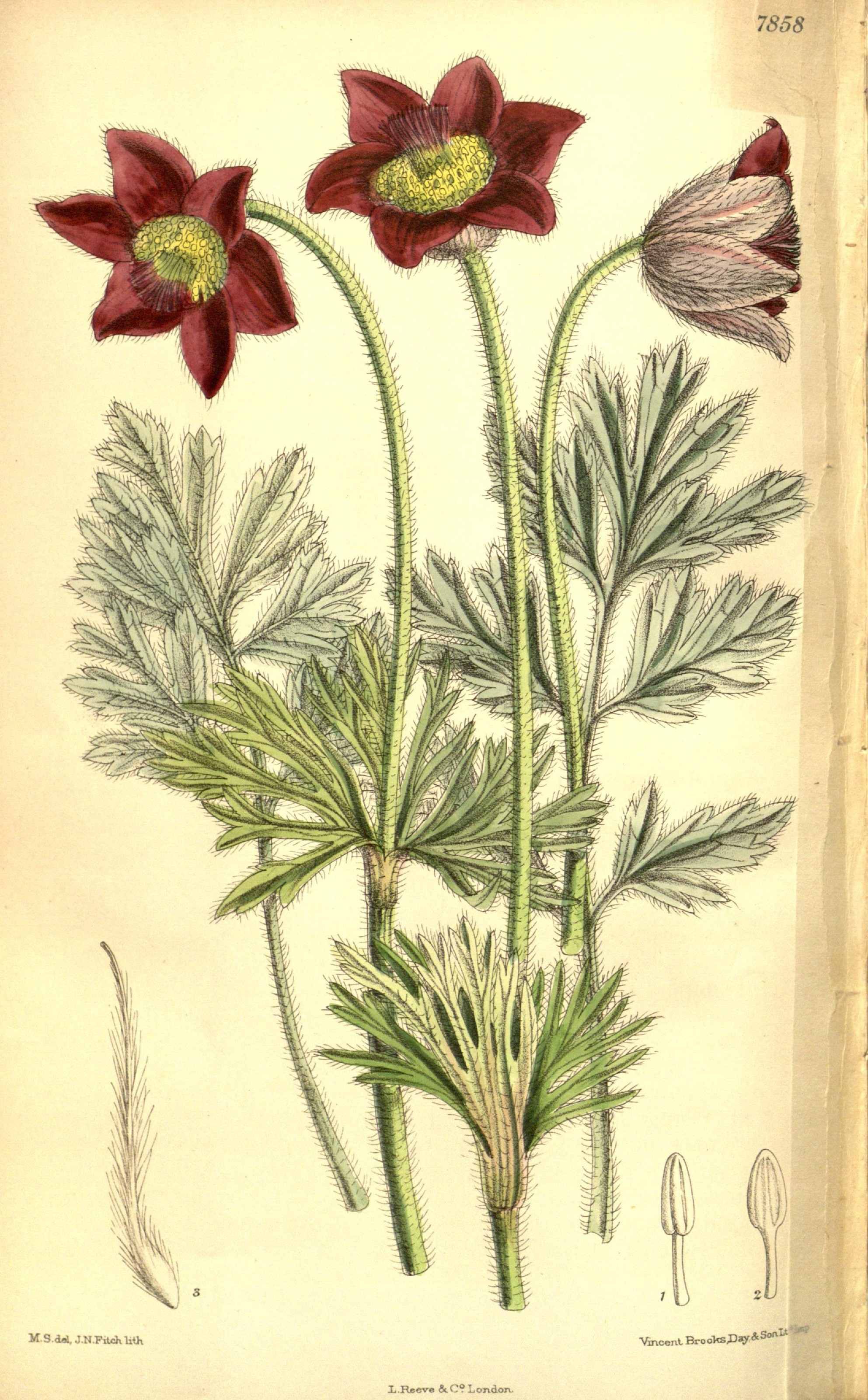 Anemone cernua, some authorities believe this name is unresolved